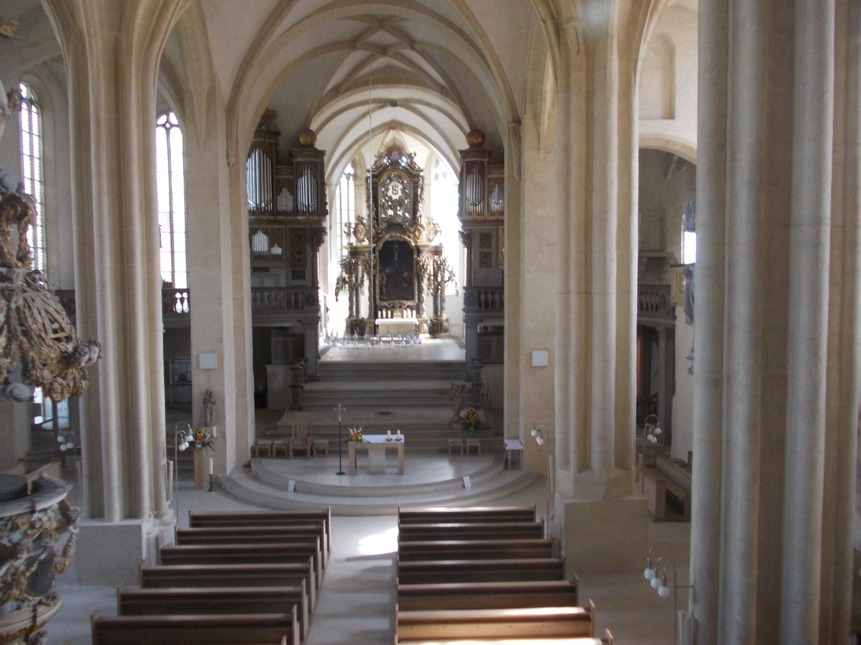 Interior of Zeitz Cathedral (district of Burgenlandkreis, Saxony-Anhalt)